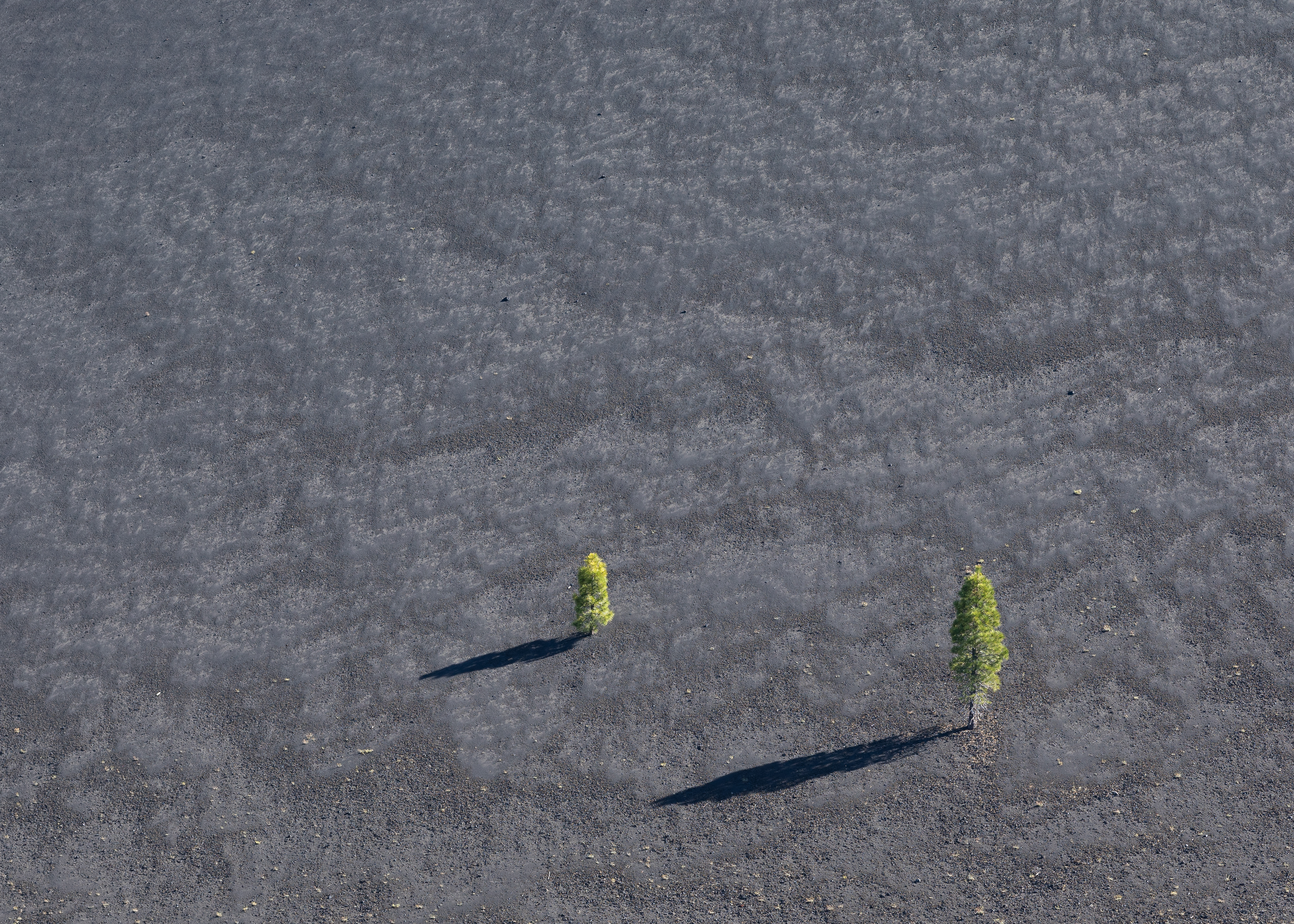 Pine trees growing on the slope of Cinder Cone, a 700 foot high volcanic cone of loose scoria in Lassen Volcanic National Park. Cinder Cone is located about 10 miles (16 km) northeast of Lassen Peak and was formed during two eruptions that occurred in the 1650s.